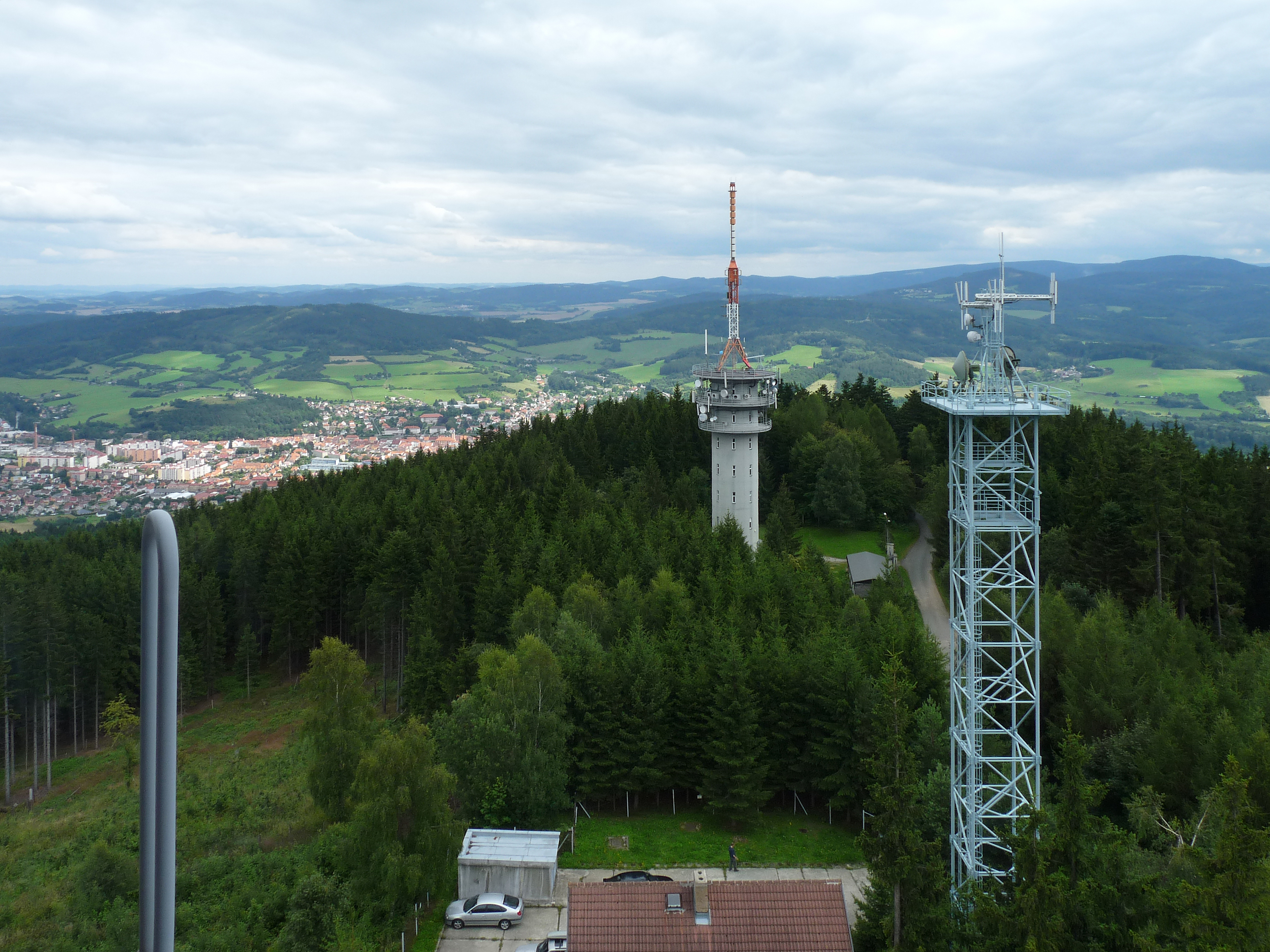 View of the town of Sušice from the stone outlook tower on Svatobor hill (845 m), Klatovy District, Czech Republic.